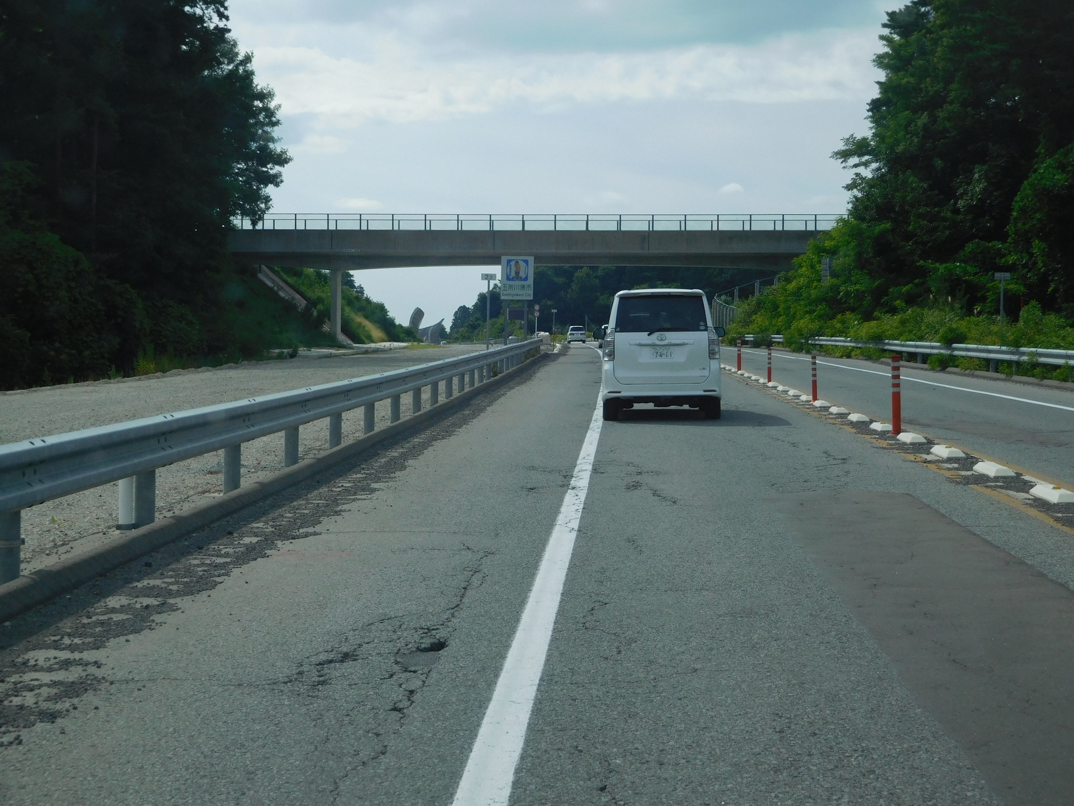 Tsugaru Expressway at border of Goshogawara City, Aomori Prefecture, Japan)